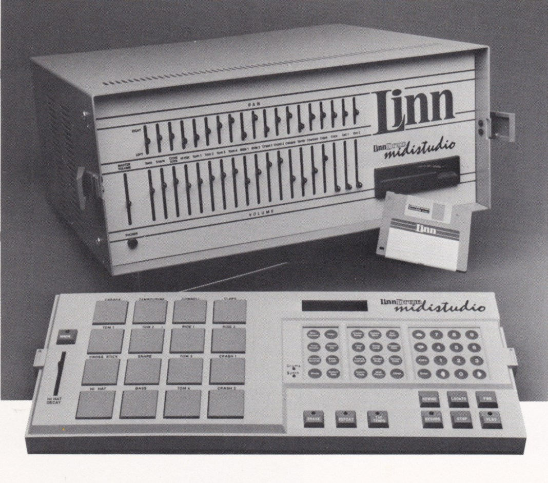 LinnDrum Midistudio - integrated digital drum machine and MIDI keyboard recorder - brochure page 2 - close up